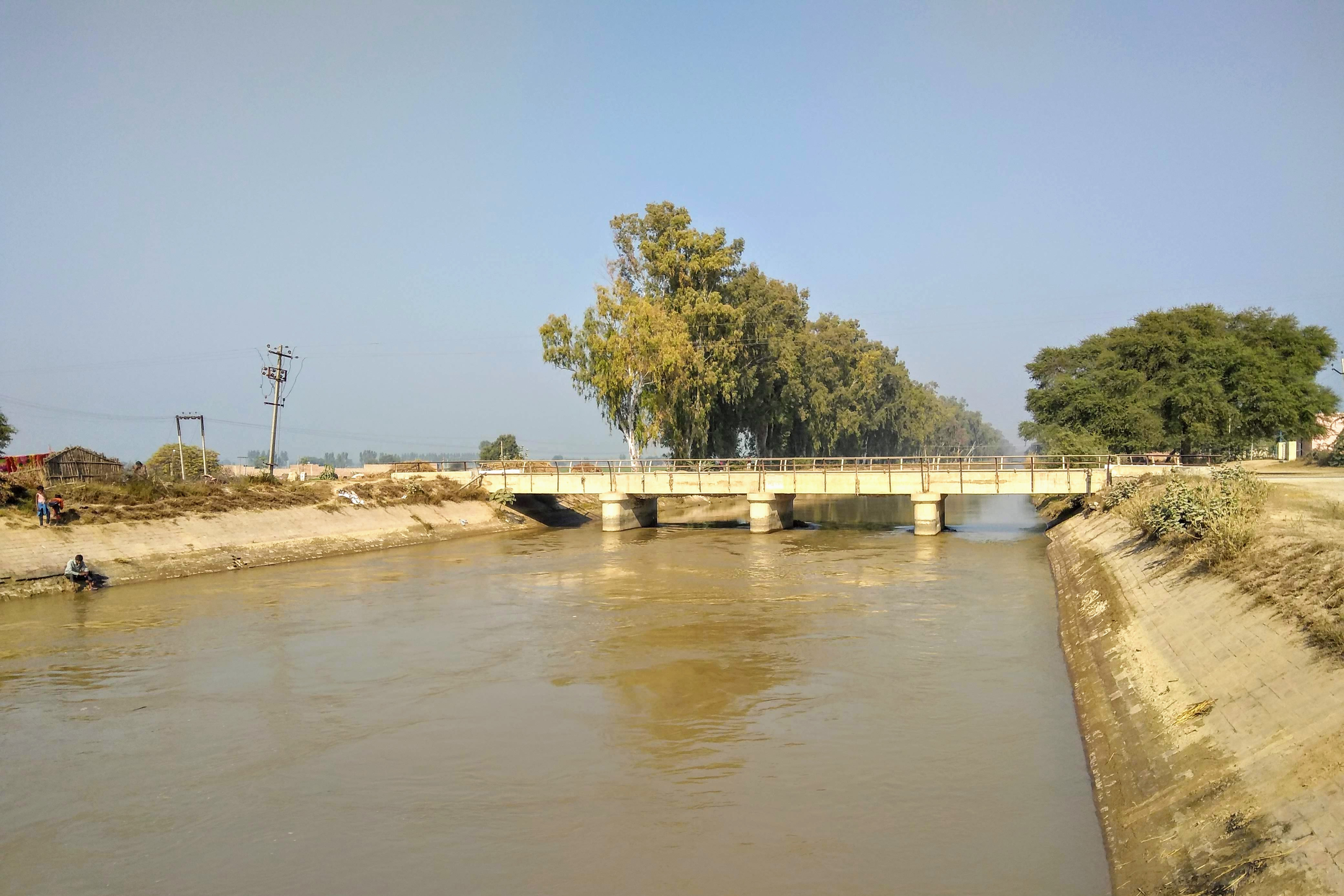 Gang canal in village Pindi Balochan, Faridkot district ਪੰਜਾਬੀ: ਗੰਗ ਨਹਿਰ ਪਿੰਡ- ਪਿੰਡੀ ਬਲੋਚਾਂ (ਫਰੀਦਕੋਟ)